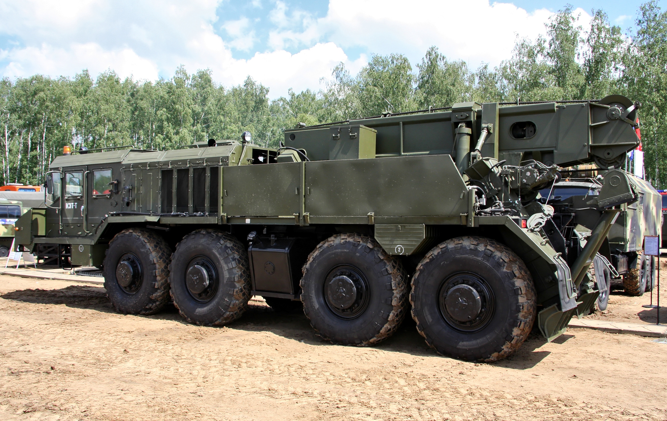 The wheeled recovery vehicle KET-T on KZKT-74281-012-chassis at Bronnitsy test rage.